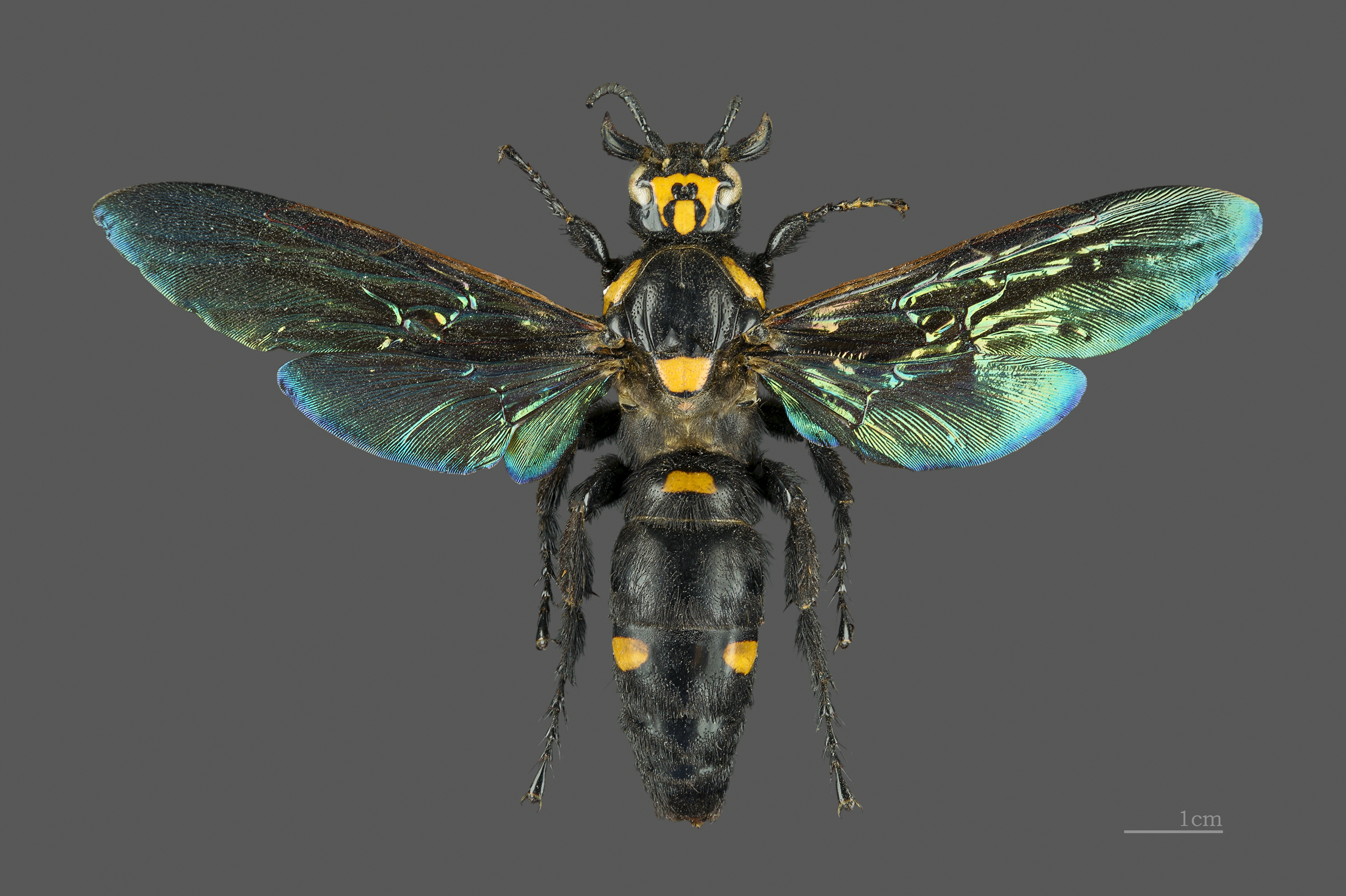 Giant Scoliid Wasp - Dorsal side